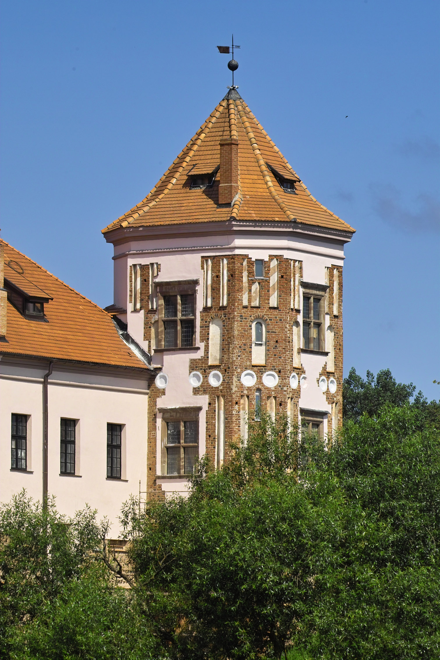 The Mir Castle Complex in Belarus. This is a photo of Belarusian heritage monument. Reference number: 410Г000317 ( WLM)